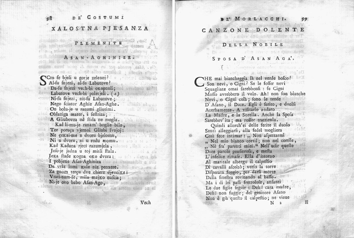 First written edition of the Croatian folk poem 'Asanaginica', recorded by Alberto Fortis.